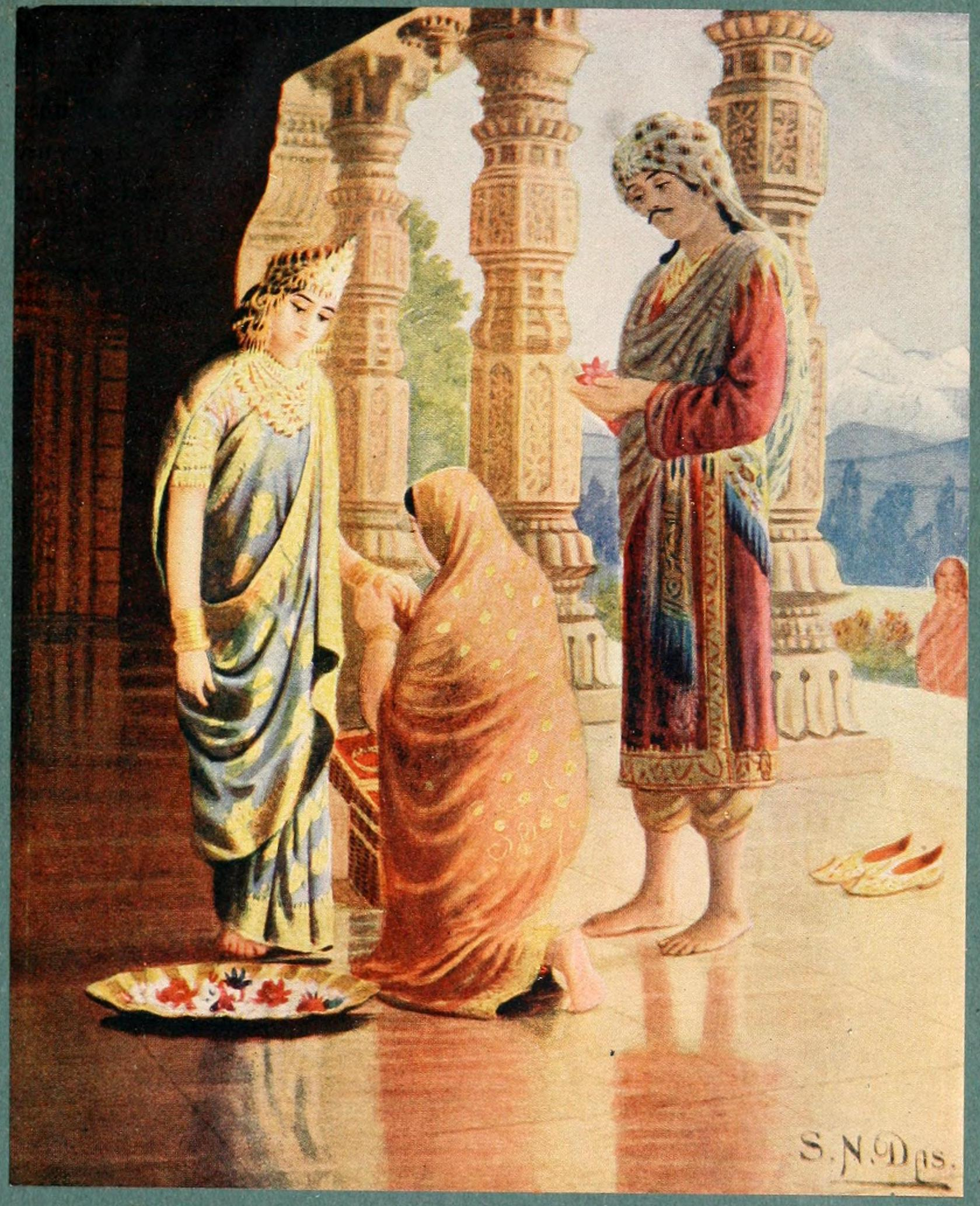 Nine ideal Indian women (1919) Author: Sunity Devee, Maharanee Publisher: Calcutta : Thacker, Spink & Co. Possible copyright status: NOT_IN_COPYRIGHT Language: English Call number: SRLF_UCLA:LAGE-3264077 Digitizing sponsor: Internet Archive Book contributor: University of California Libraries Collection: cdl; americana Scanfactors: 2 Full catalog record: MARCXML [Open Library icon]This book has an editable web page on Open Library.